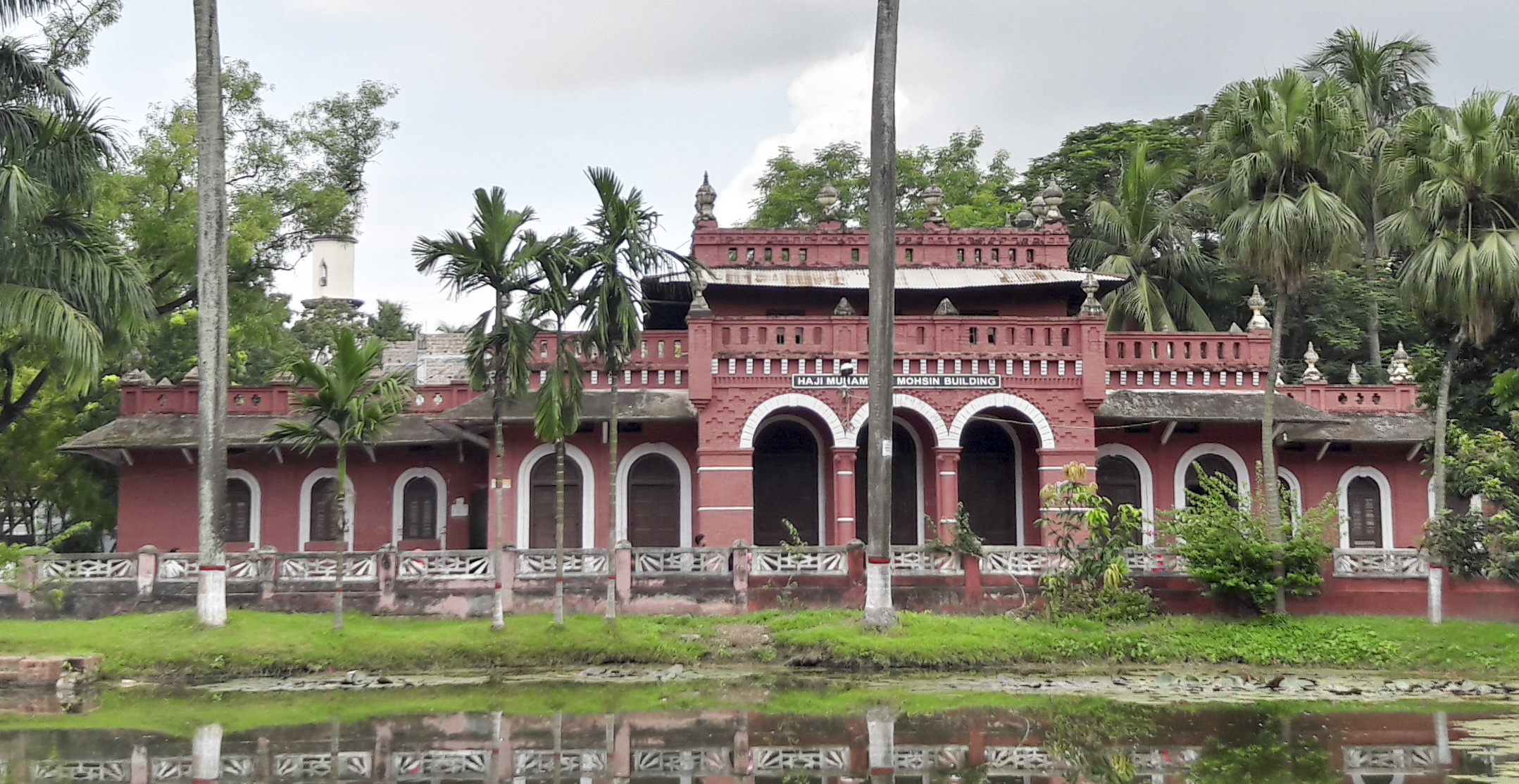 Hazi Muhammad Mohsin building of Rajshahi College, is a good example of British Indian colonial architecture. It was extablished in 1884 as Madrasha Building (the attached institute under Rajshahi College).